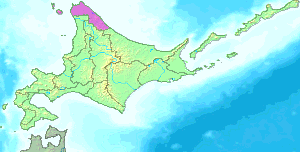 The map of Souya Subpref in Hokkaido, Japan.